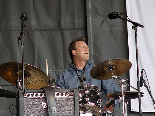 Frands Rifbjerg